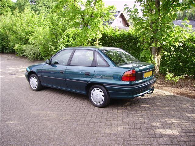 Opel Astra F Sedan